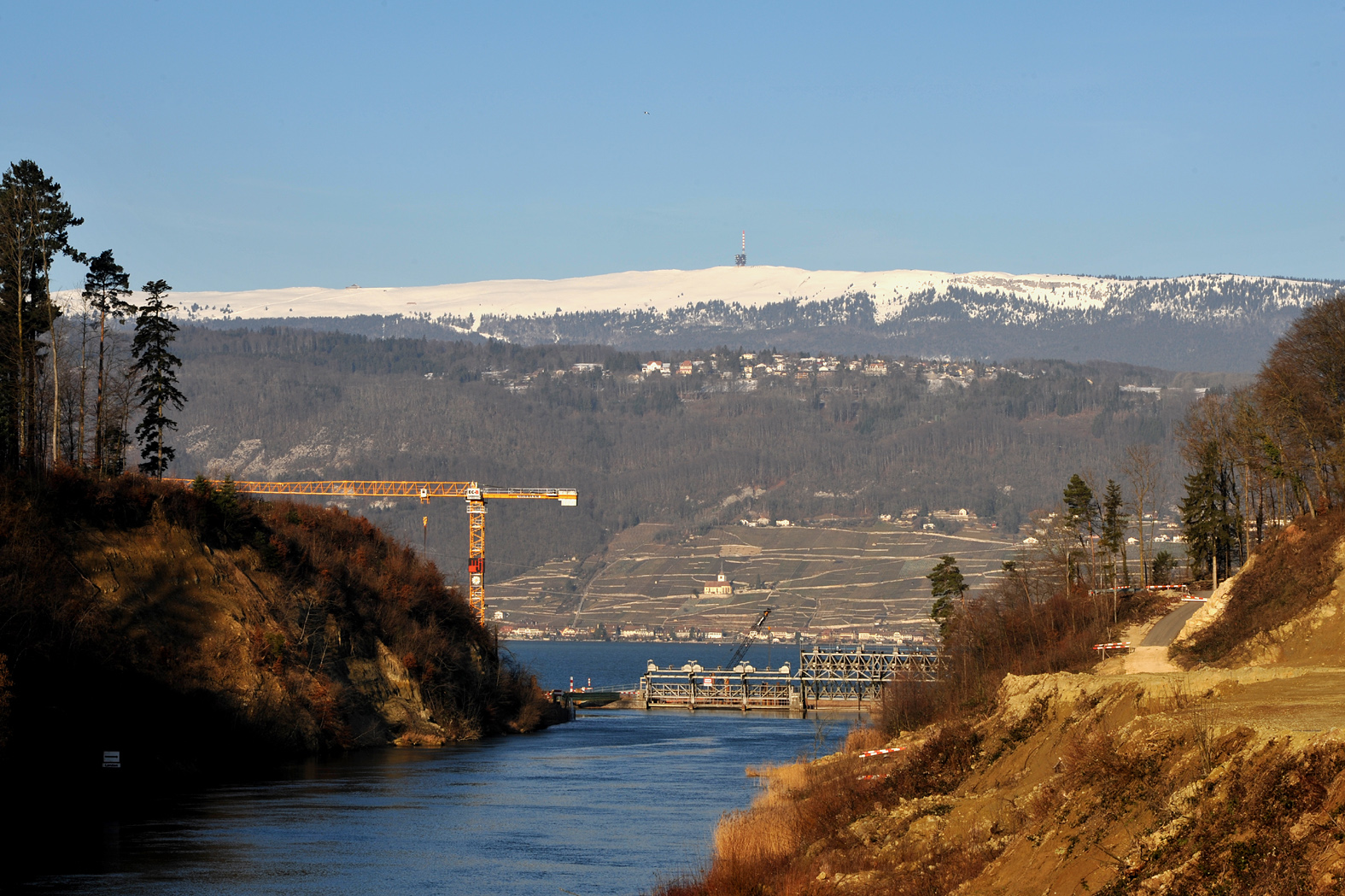 Hagneck canal of the Aar with the old dam; Berne, Switzerland. Right the landslide (spring 2007), in the background Lake Biel the church of Ligerz the village Prêles and the Chasseral.